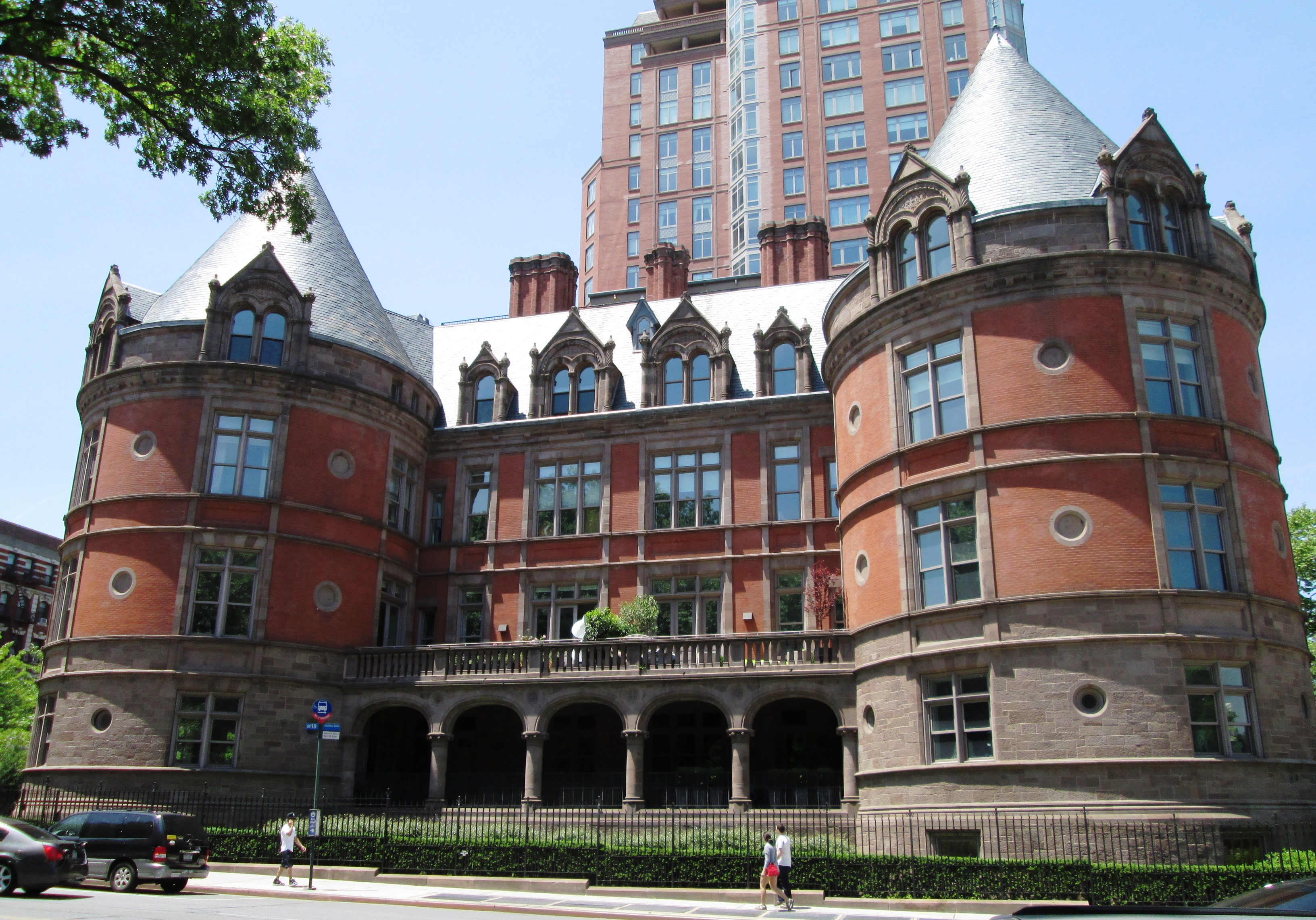 The New York Cancer Hospital in the Upper West Side of Manhattan, New York City was a cancer treatment and research institution founded in 1884. Located at 455 Central Park West between West 105th and 106th Streets, it was built between 1884 to 1886 with additions made between 1889 and 1890, and was designed by Charles Coolidge Haight in the Late Gothic and French Chateau styles – inspired by the chateaux of the Loire Valley. It was the first hospital in the United States dedicated specifically for the treatment of cancer, and the second in the world after the London Cancer Hospital. Around 1955, the hospital became Towers Nursing Home, and the building began its decline. It was designated a New York City landmark in 1976, was added to the National Register of Historic Places in 1977, and was converted into luxury condominium apartments in 2001-05 designed by Perkins Eastman Architects.